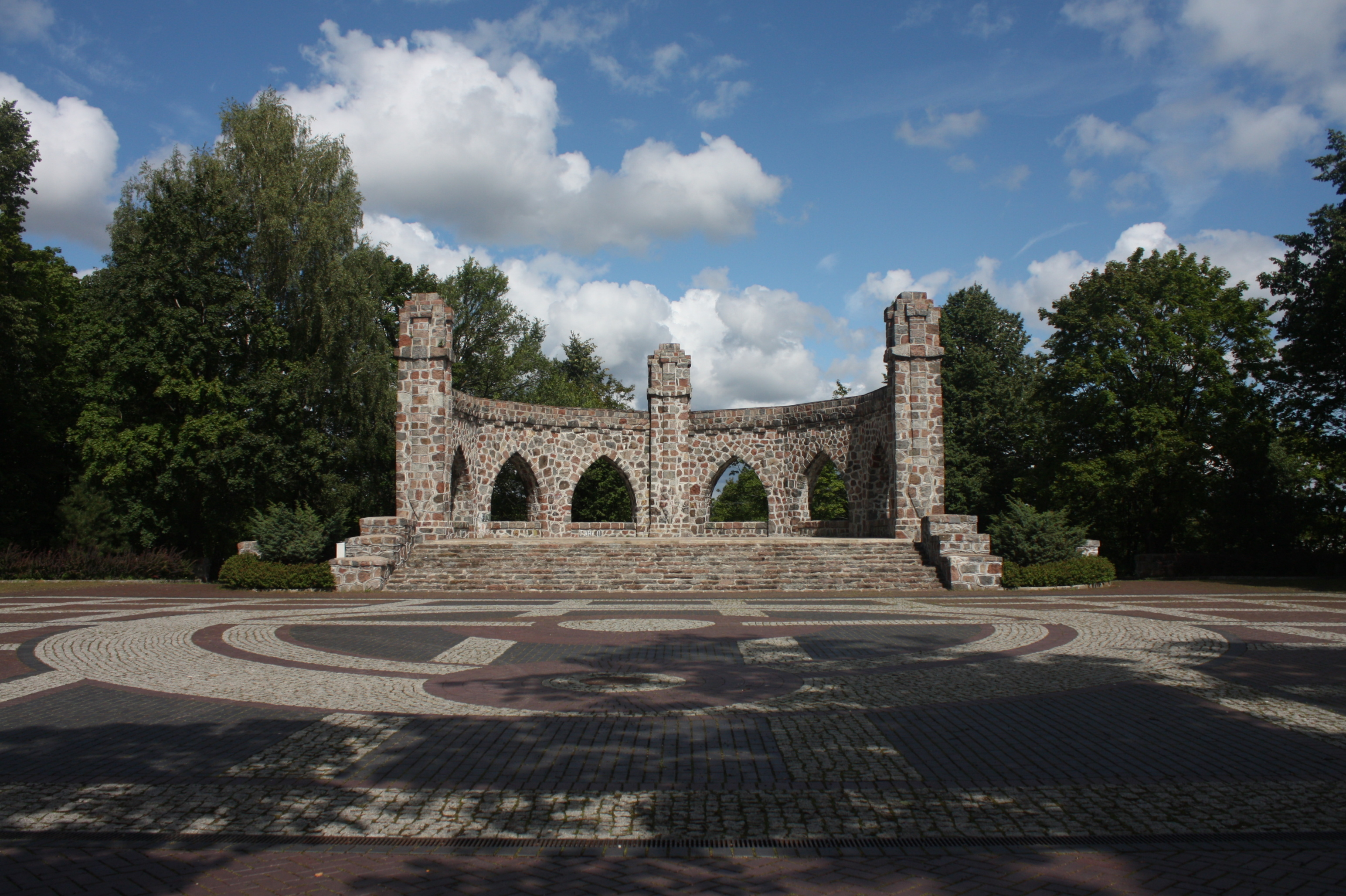 This photo of Warmian-Masurian Voivodeship was taken during Wikiexpedition 2012 set up by Wikimedia Polska Association. You can see all photographs in category Wikiekspedycja 2012. The making of this document was supported by Wikimedia Polska.